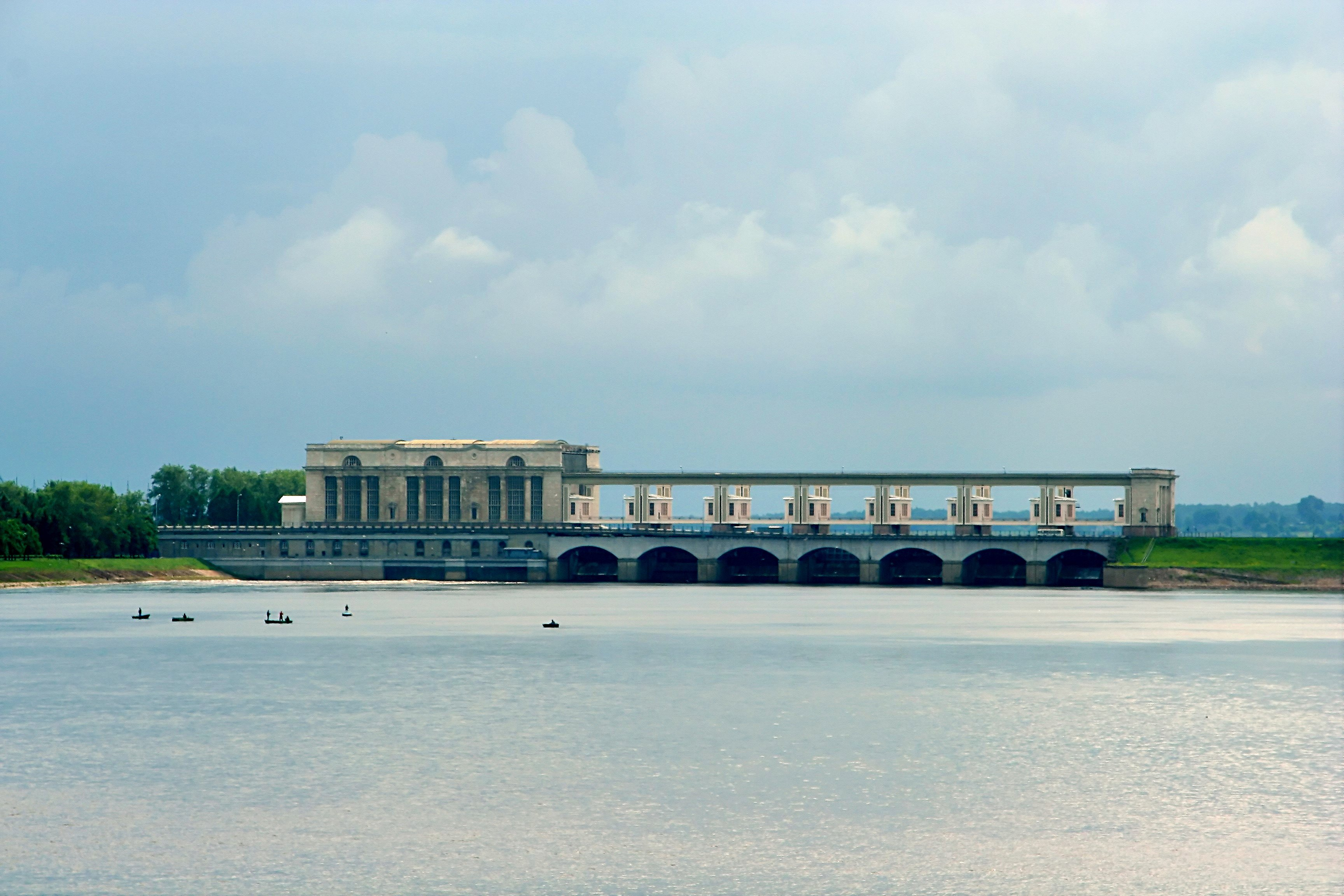 Electrical powerplant at the river bank Uglich seen from downstream